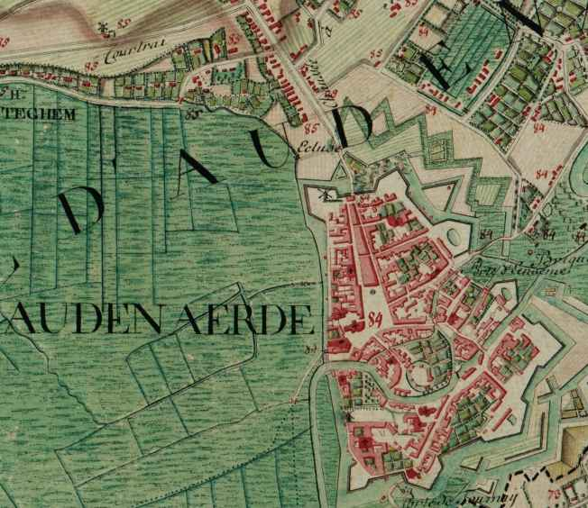 Oudenaarde,_Belgium_;_ detail from Ferraris_Map